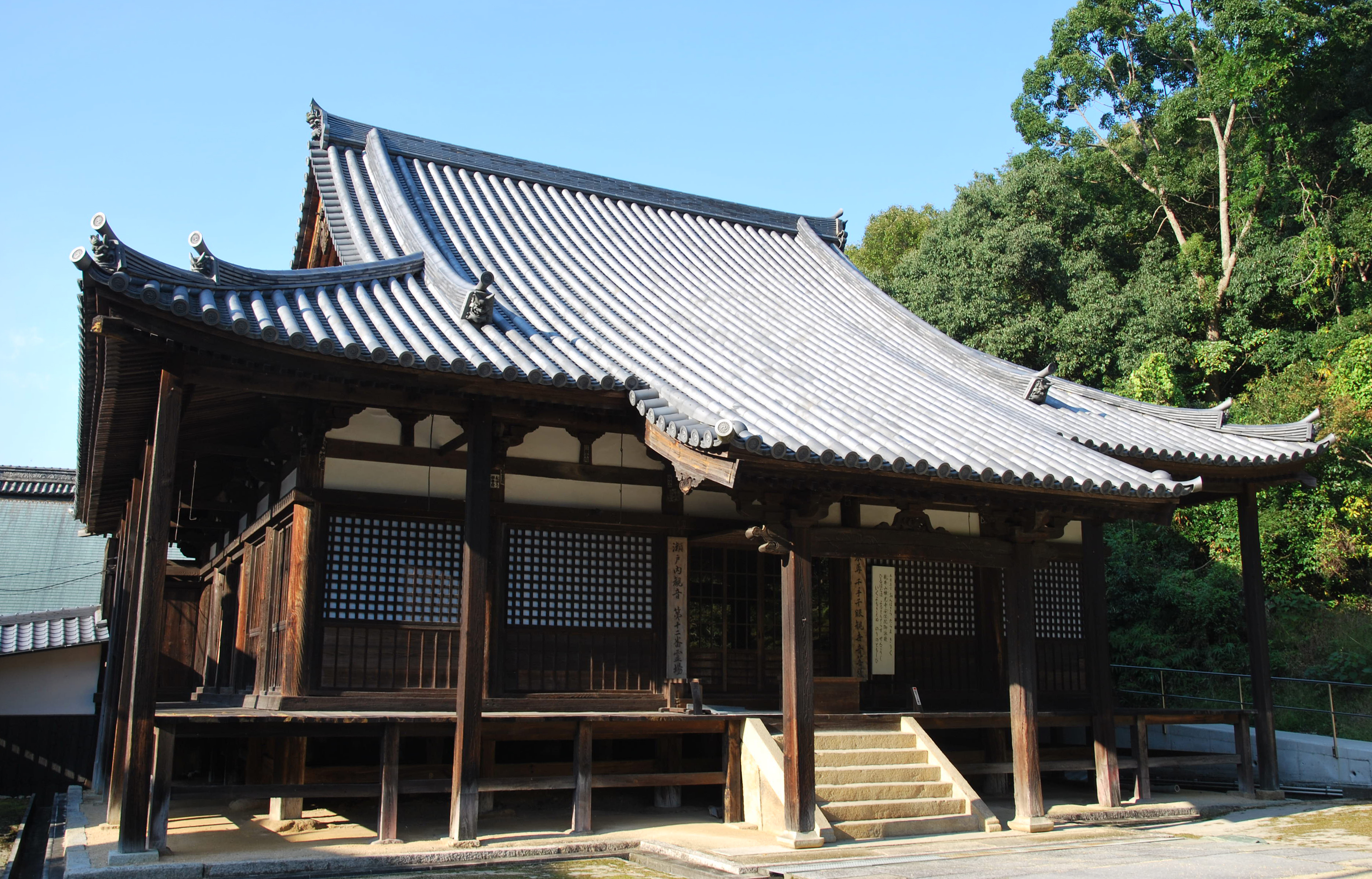 Main hall, Anjuu-in